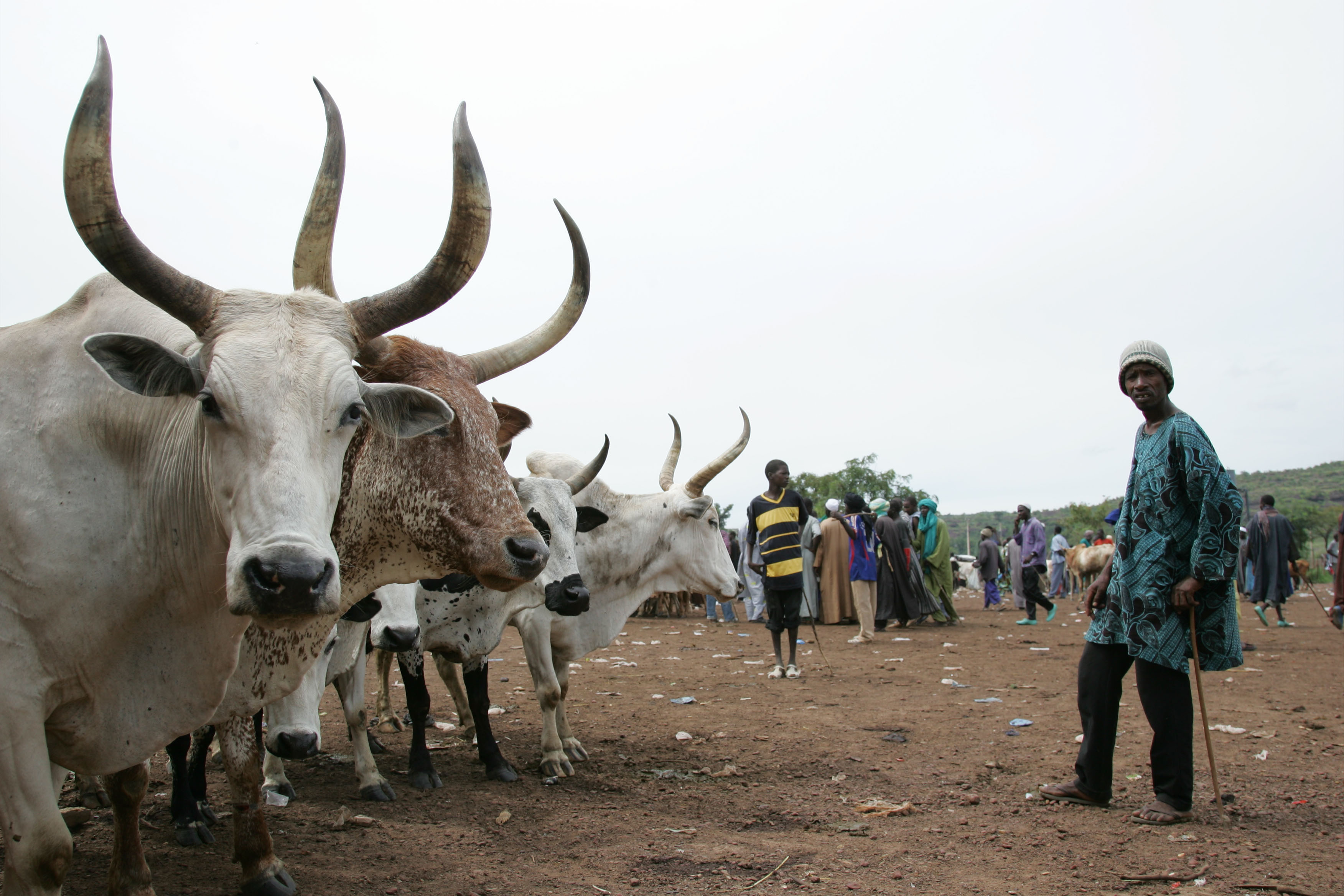 At the Niamana Livestock Market, in Bamako, the largest in Mali, animals for sale and slaughter including Ndama cattle and humped Zebu.